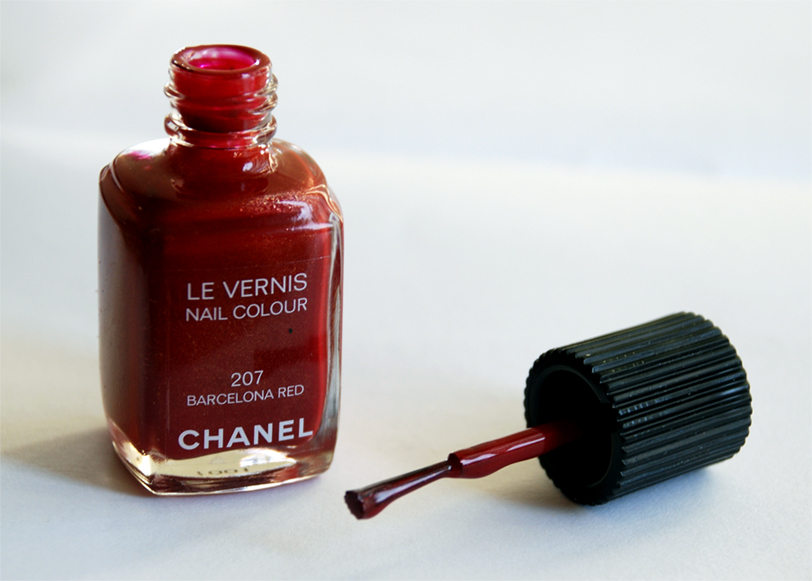 nail polish